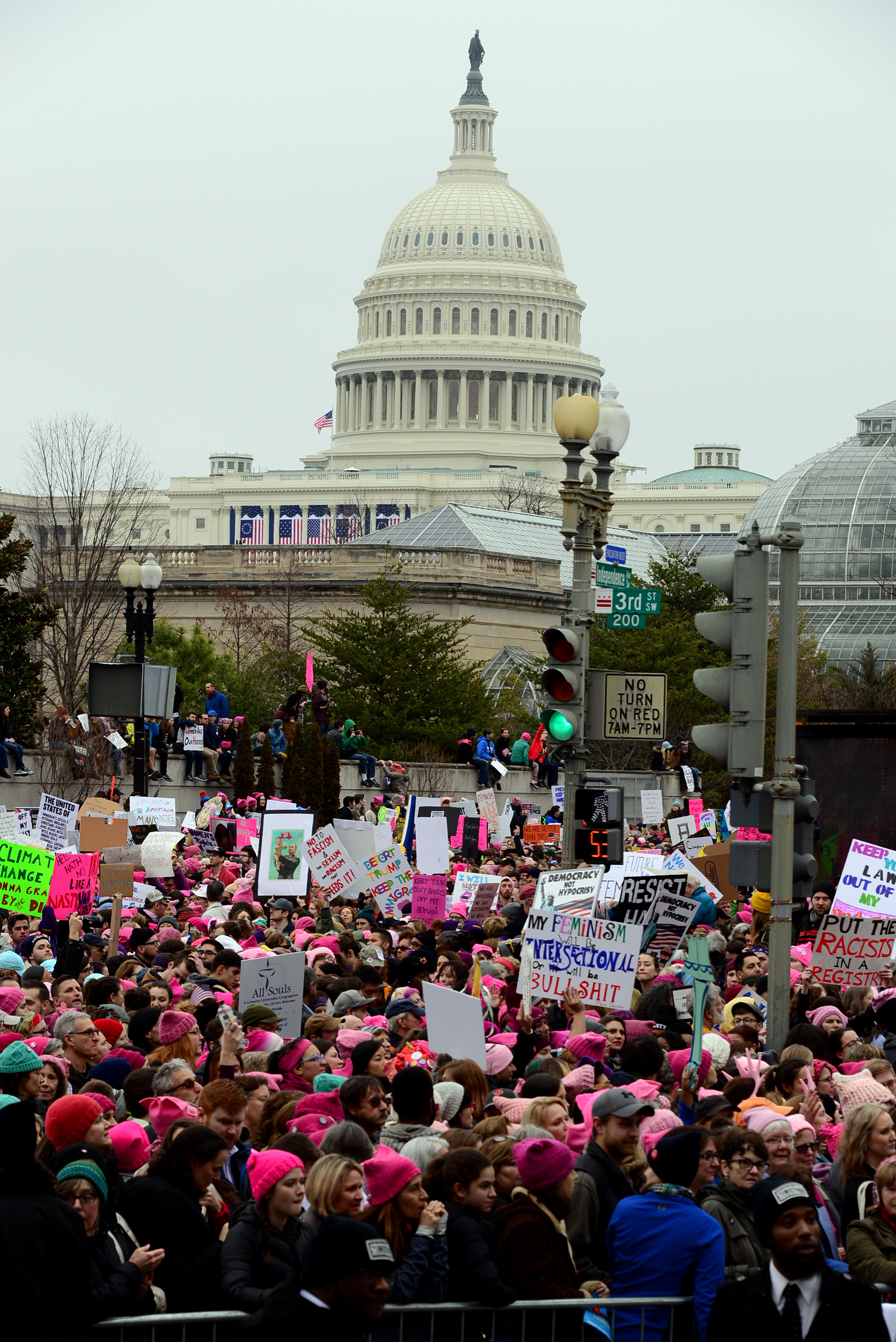 Protestors march in the Woman’s March on Washington D.C. Jan. 21, 2017. The Capital Mall area was the starting point of the march, hundreds of thousands of people attended. (National Guard photo by Tech. Sgt. Daniel Gagnon, JTF-DC).